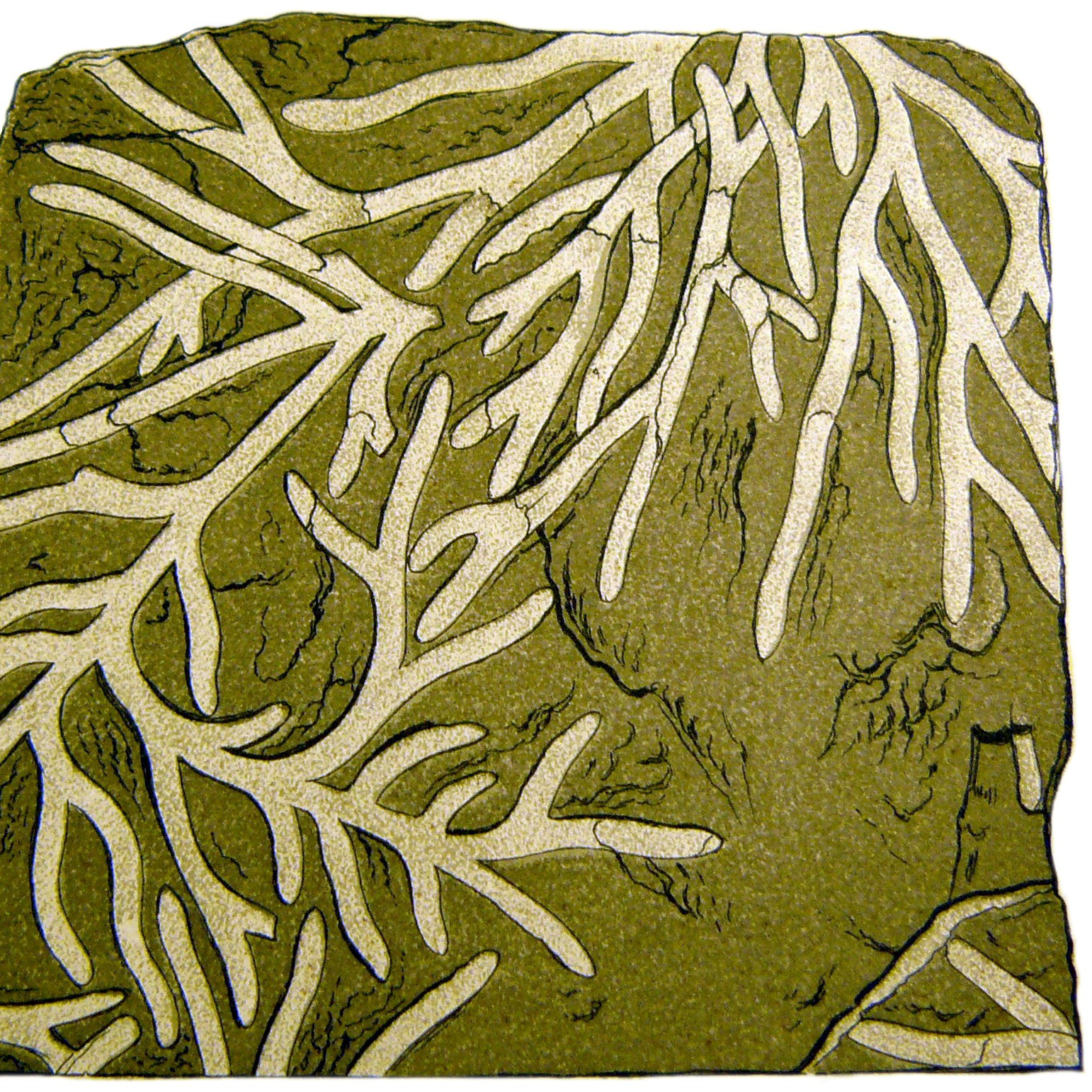 Chondrites bollensis